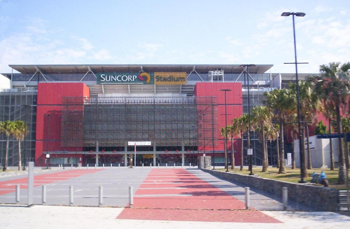 Suncorp Stadium, Milton, in Brisbane, Queensland, Australia